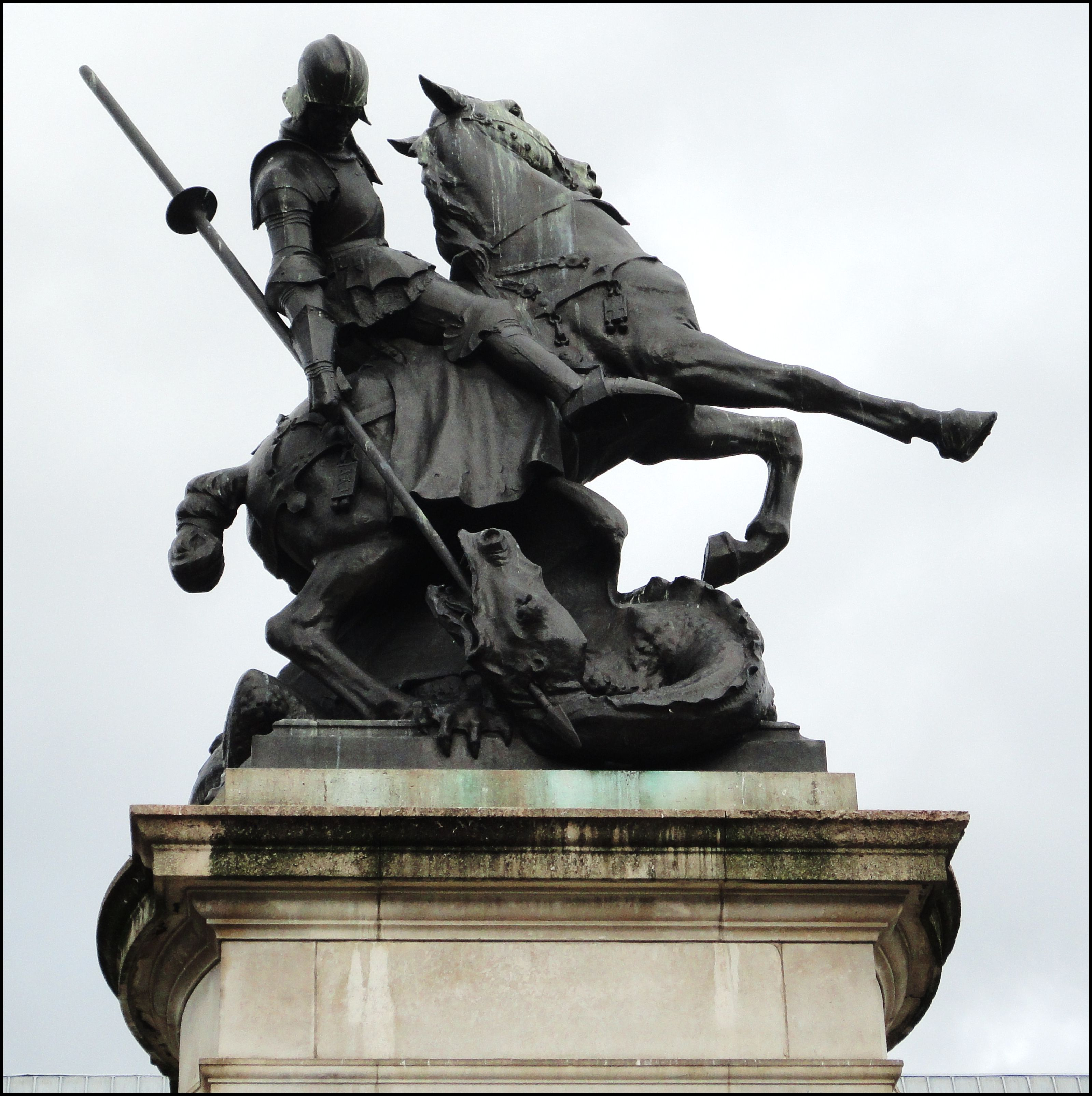 Newcastle upon Tyne ... St George in action.